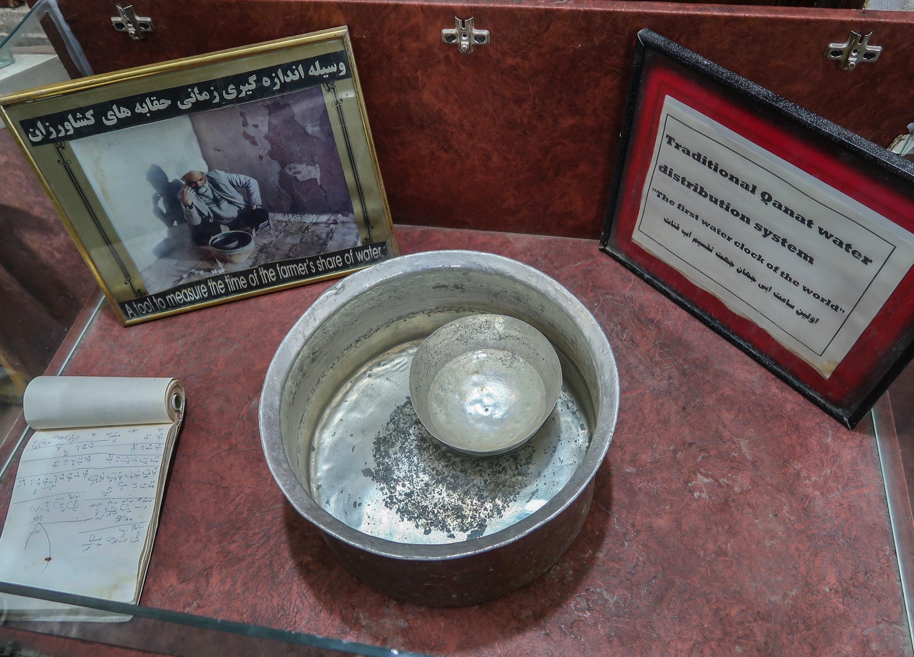 Water clock in Yazd Water Museum (Iran). Water flows slowly to the (upper) small bowl through its bottom hole. In Iran, such clocks have been (and are still) used to measure the watering time of each separate farm from shared irrigation system of the village.